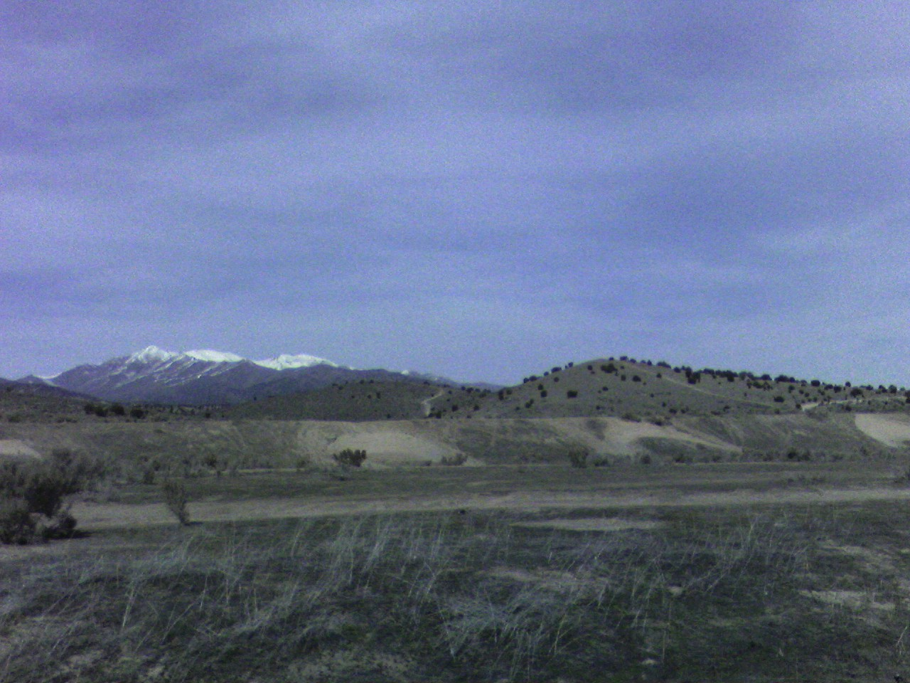 Motocross biking trails at Five Mile Pass by David Jolley 2007.